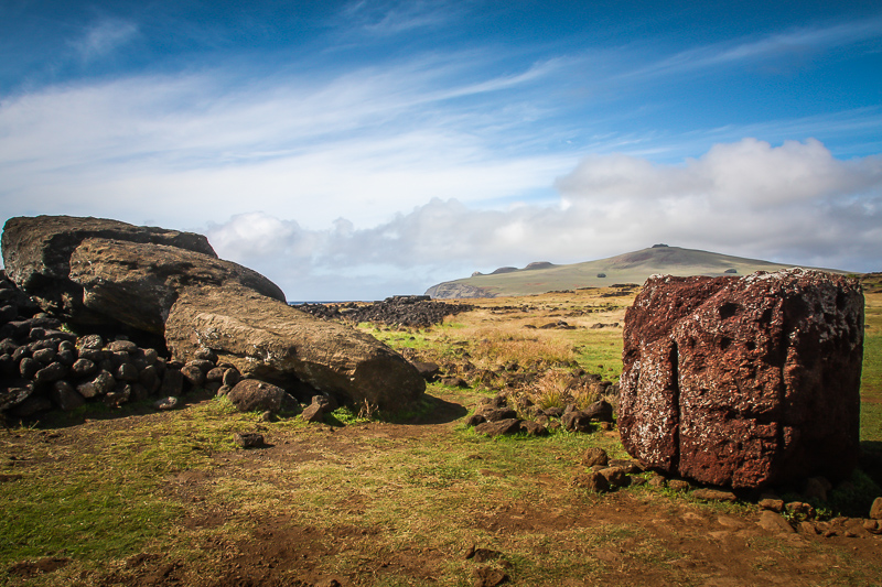 A toppled statue (moai) on Easter Island.